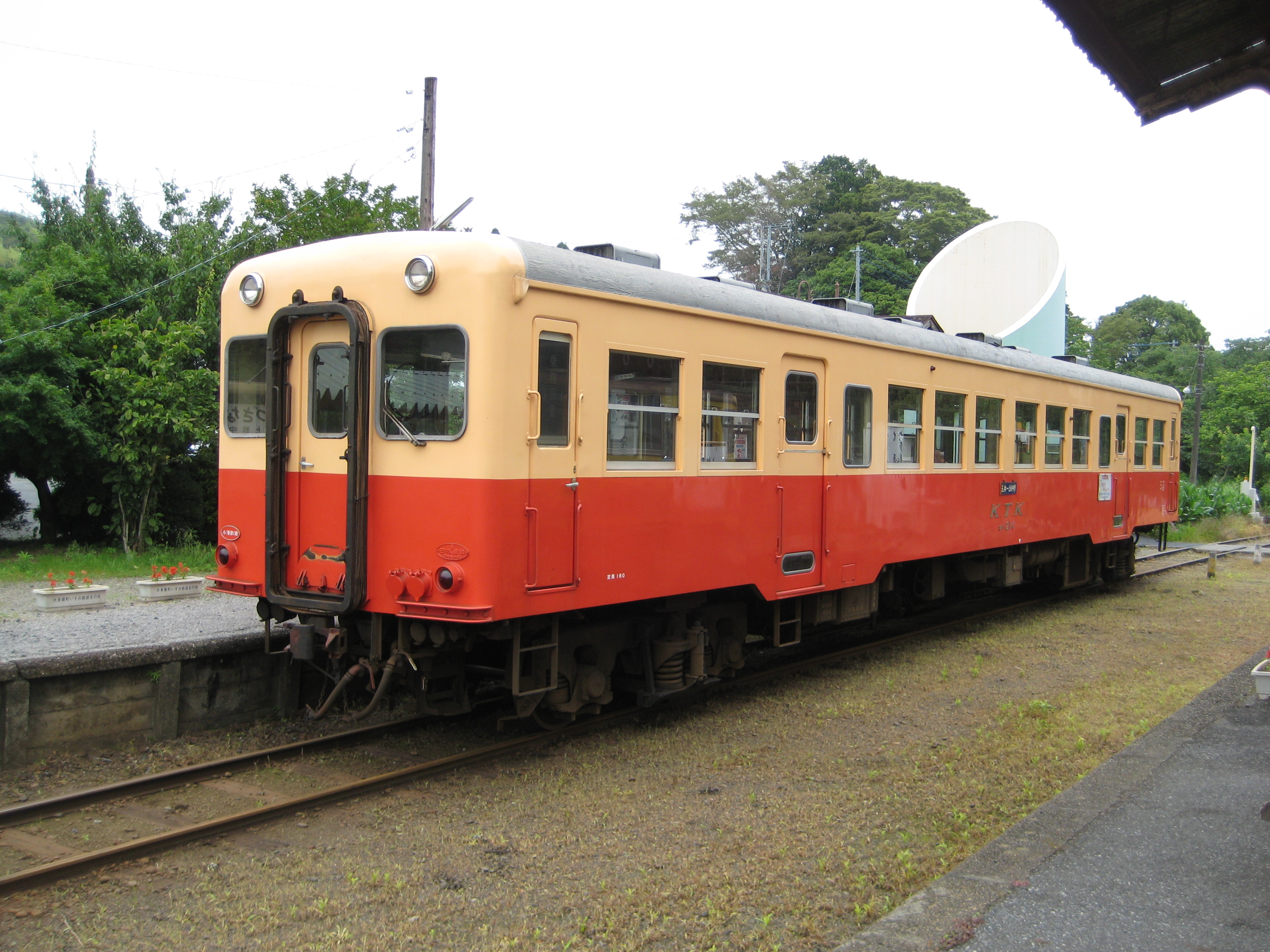 Kominato Railway Kiha 200 series DMU Kiha 214 at Kazusa-Nakano Station